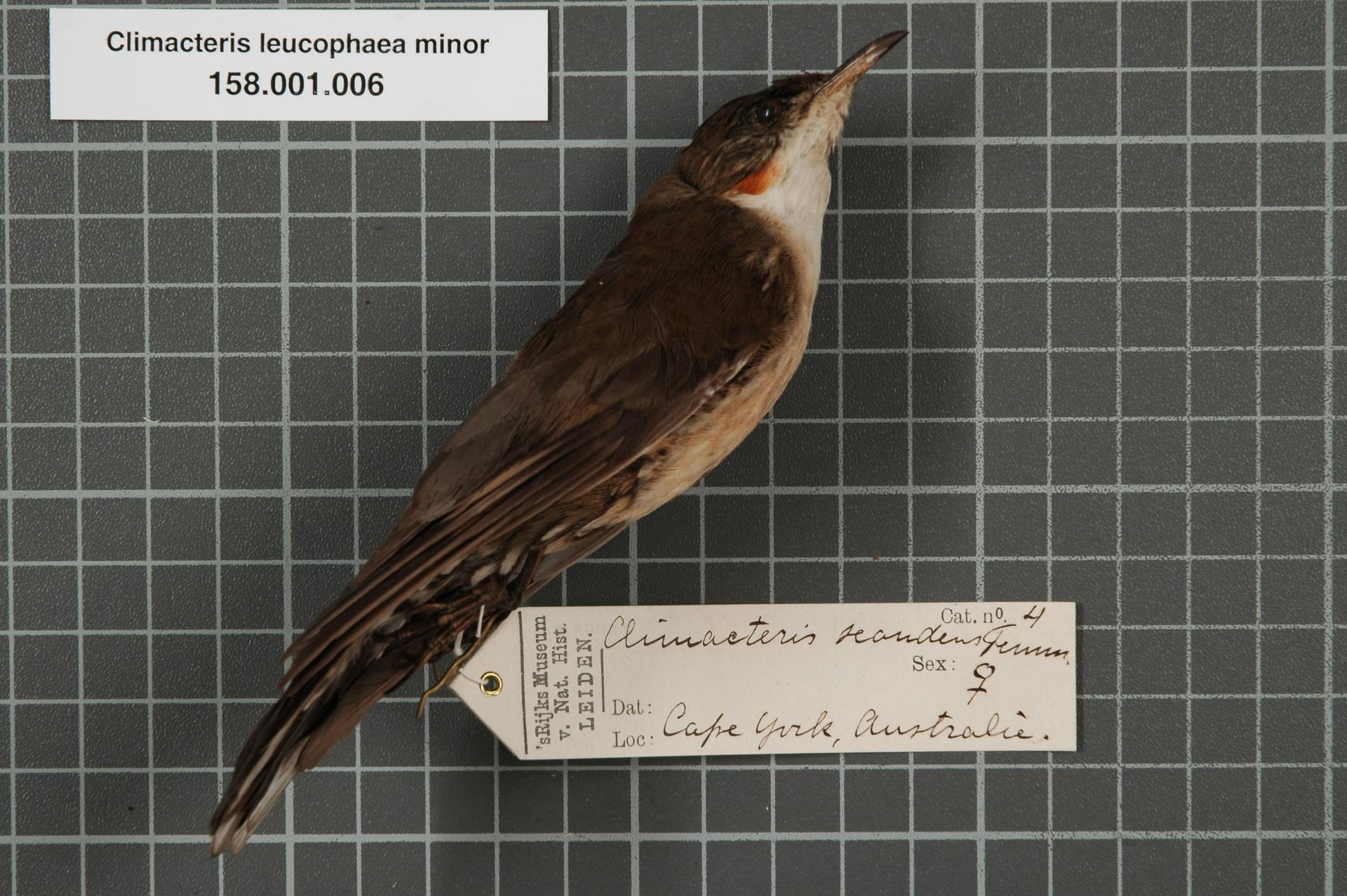 Climacteris leucophaea minor Ramsay, 1891